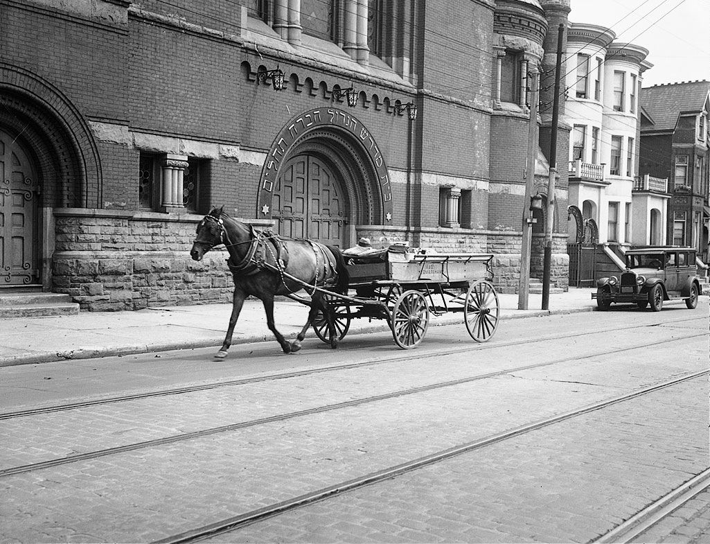 Horse drawn wagon in front of the McCaul Street Synagogue. Beth Hamidrash Hagadol, more commonly known as the McCaul Street Synagogue, was founded in downtown Toronto in 1887, first opening in a small room above a blacksmith's shop at the corner of Richmond and York Streets. In 1904, the congregation moved into a larger home, the former McCaul Street Methodist Church, quickly renovated and remodeled into a synagogue, where it remained for the next 50 years. In 1952, the congregation merged with another, to form Beth Tzedec, which later relocated to Bathurst Street.